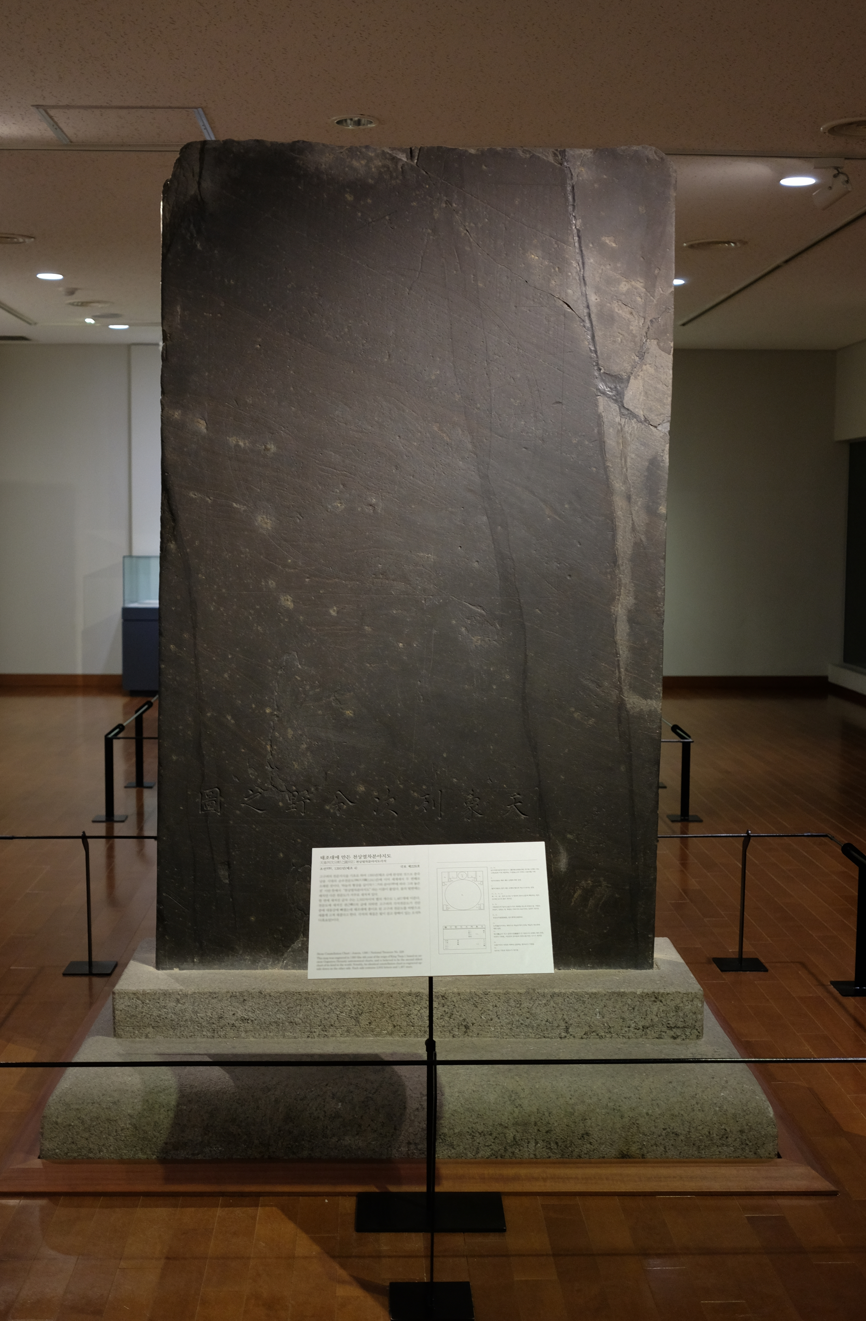 Cheonsang Yeolcha Bunyajido carved on the flat stone